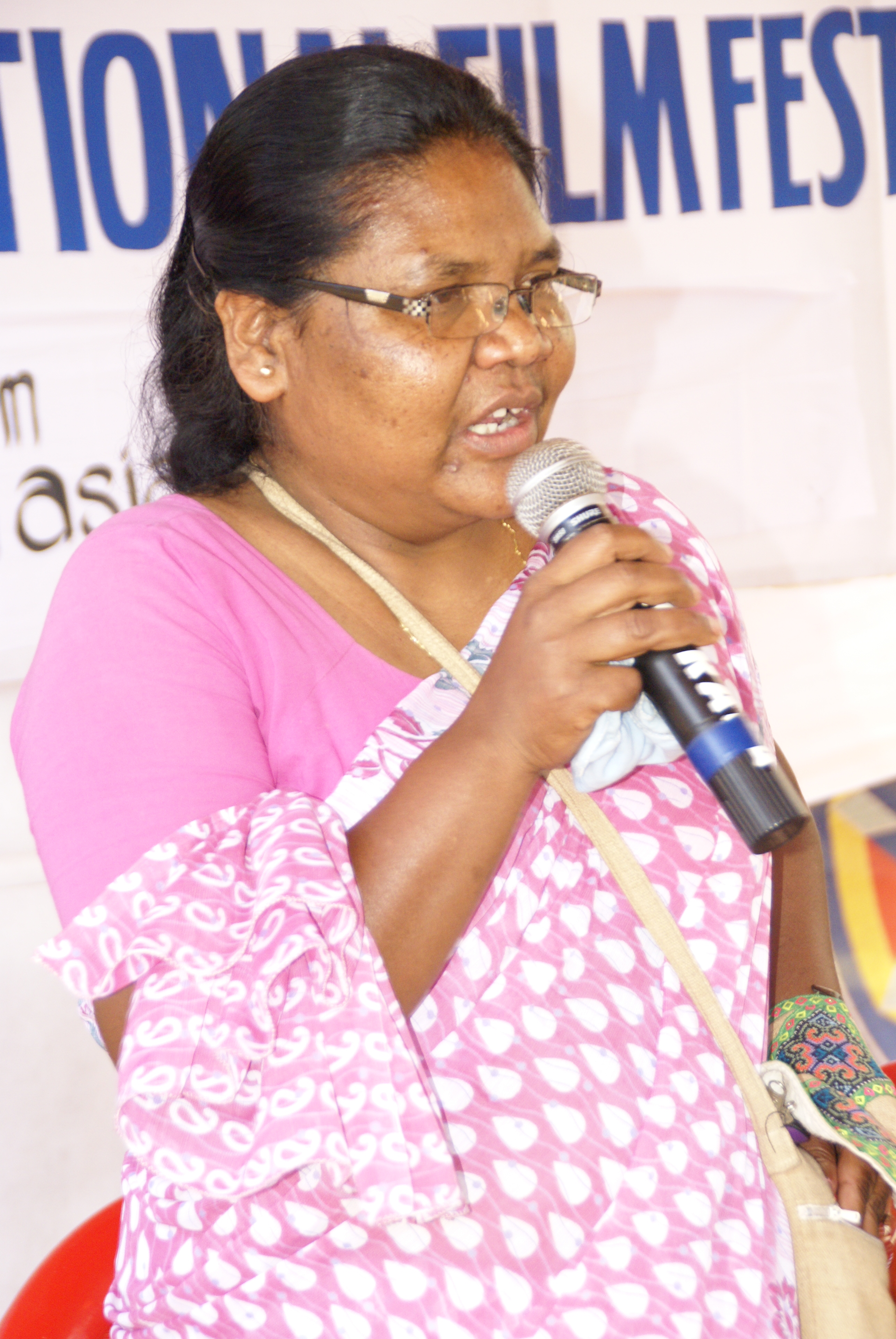 Adivasi Leader Dayamani Barla in ViBGYOR International film festival 2012 This media file is uploaded with Malayalam loves Wikimedia event - 2. SONY DSC